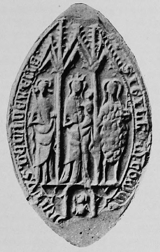 The Common Seal of the Priory of Caldwell, Bedfordshire. "The common seal of the priory represented our Lady crowned, and standing with the holy Child in her arms; on the right St. John the Baptist, on the left St. John the Evangelist; the prior kneeling below." according to Page & Doubleday